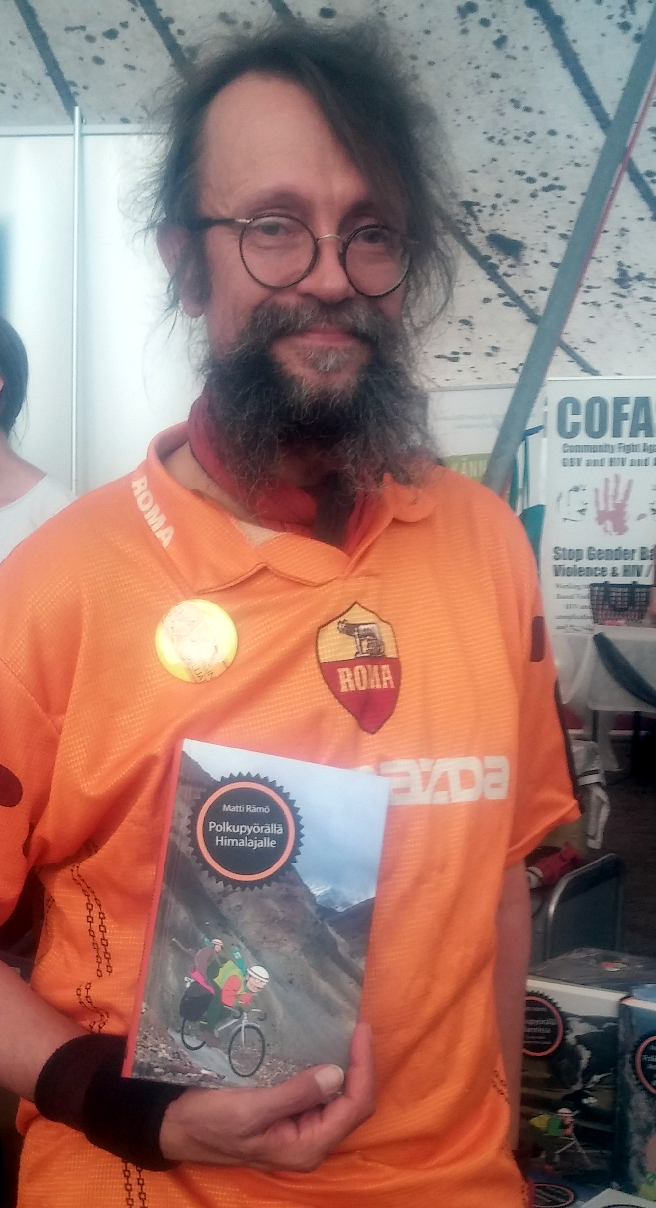 Matti Rämö is a Finnish travel writer and journalist.